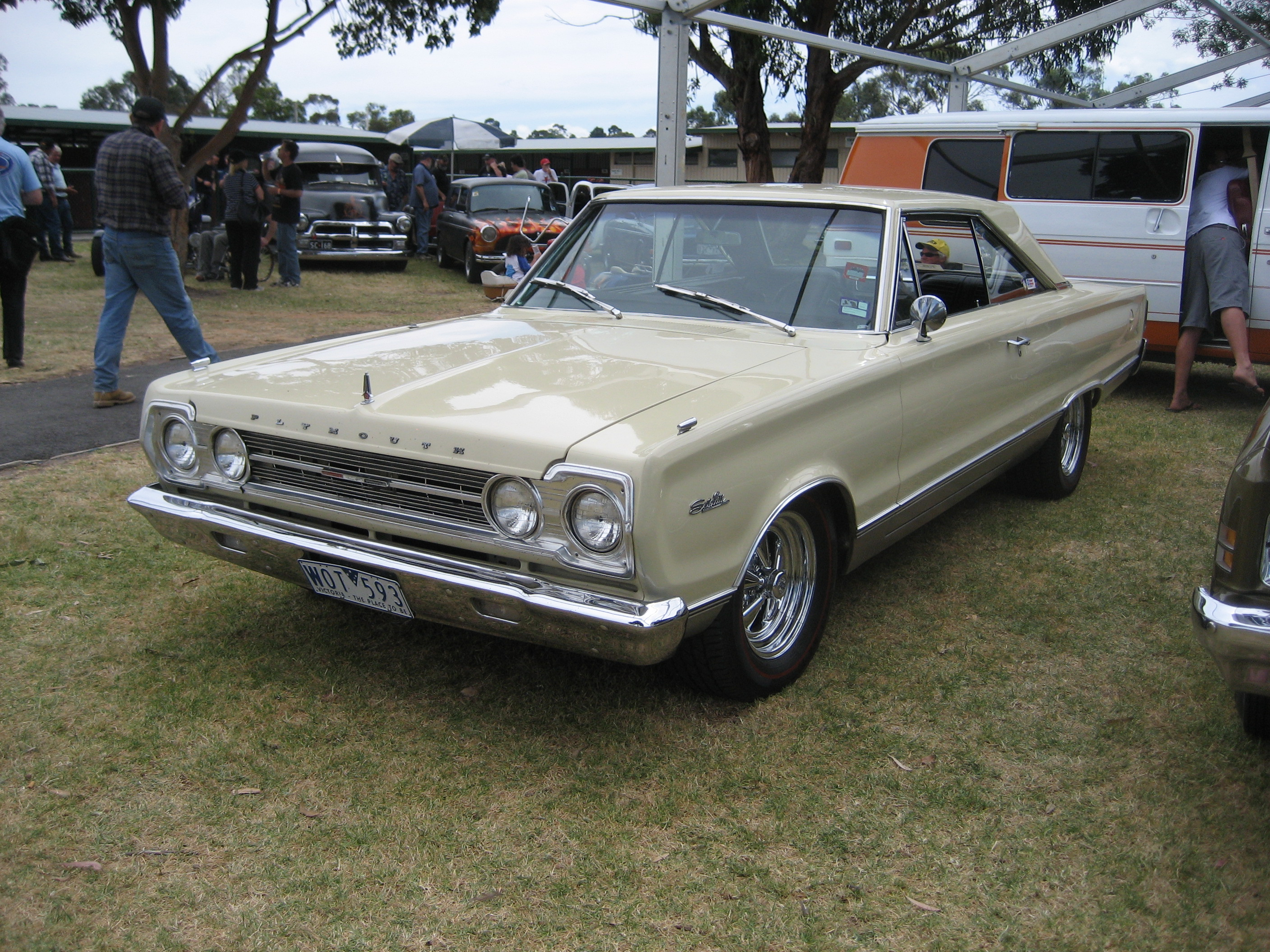 Satellites were made from 1965-74. Mid trim level for 1967. Available in 2 door hardtop or convertible. Engines; 318, 383 or 426 Hemi V8s